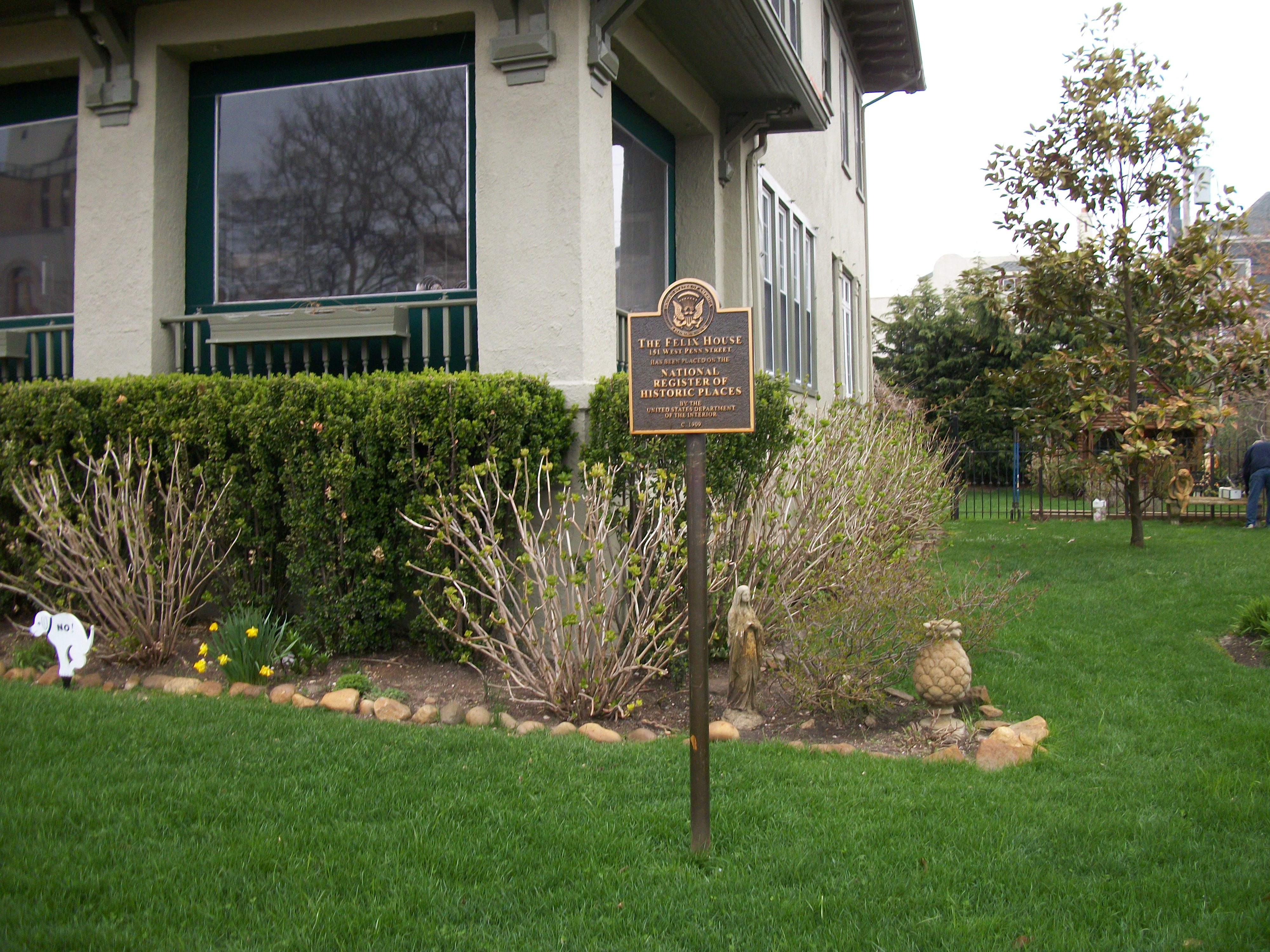 A historic plaque on the front lawn of the Pauline Felix House in Long Beach, New York.